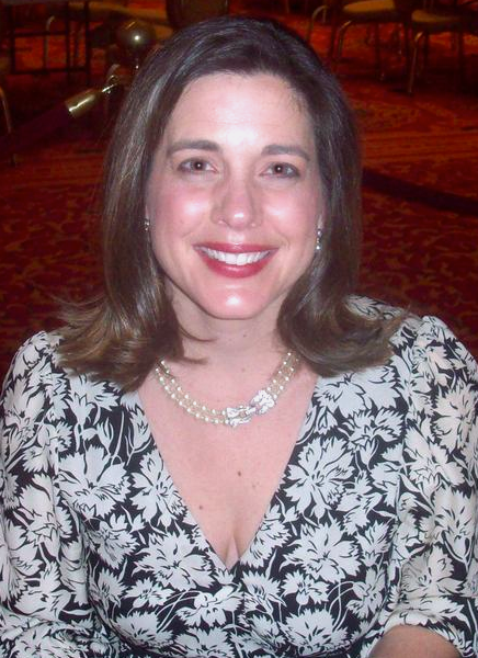 Heather Whitestone, Miss America 1995, signing autographs at a Miss America 2008 event.